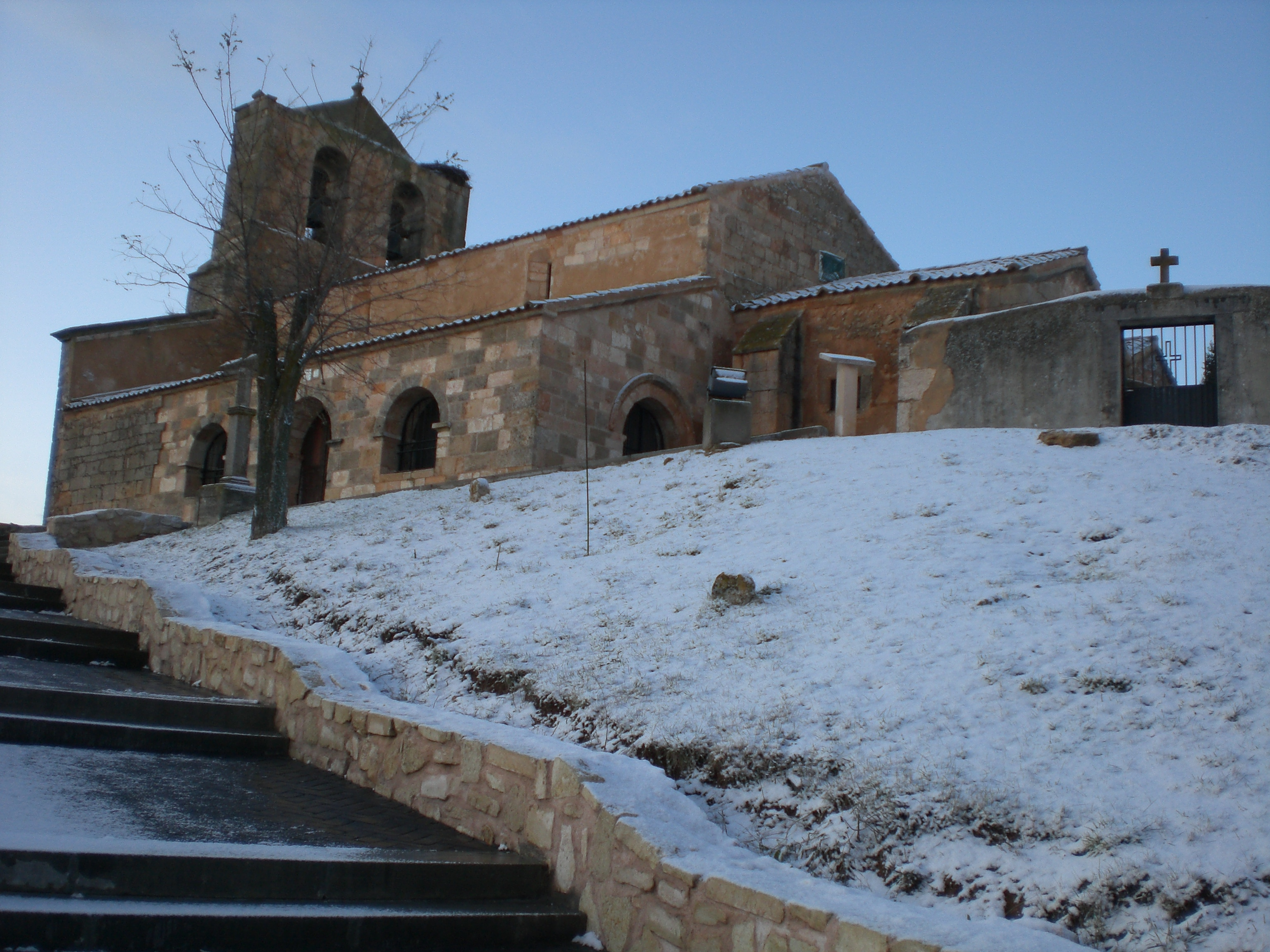 Majestic church in the top of the town of Fresno de la Fuente, with a length of more than 900 years, is finished in limestone, with a very closed Romanesque style, is the oldest in the area, its size is not very great but its historical value is very large, this church is dedicated to St. Michael the Archangel, patron of the town, whose feast in his honor is celebrated on the closest to 29 September.